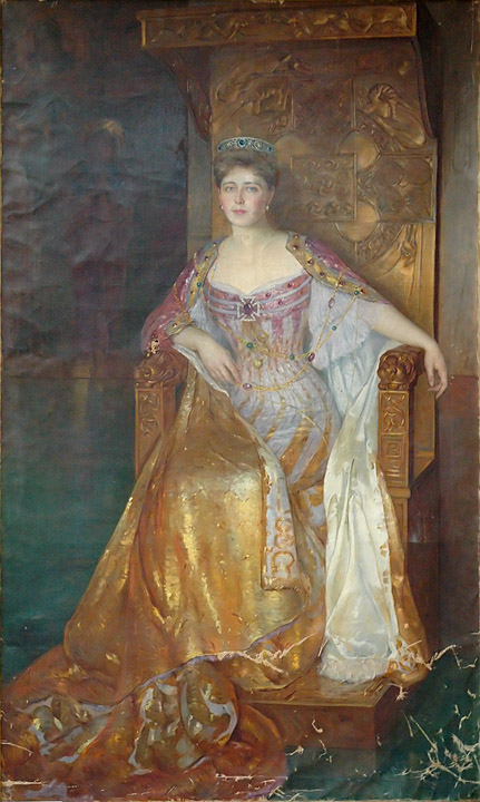 Portrait of Marie of Romania (1875-1938)